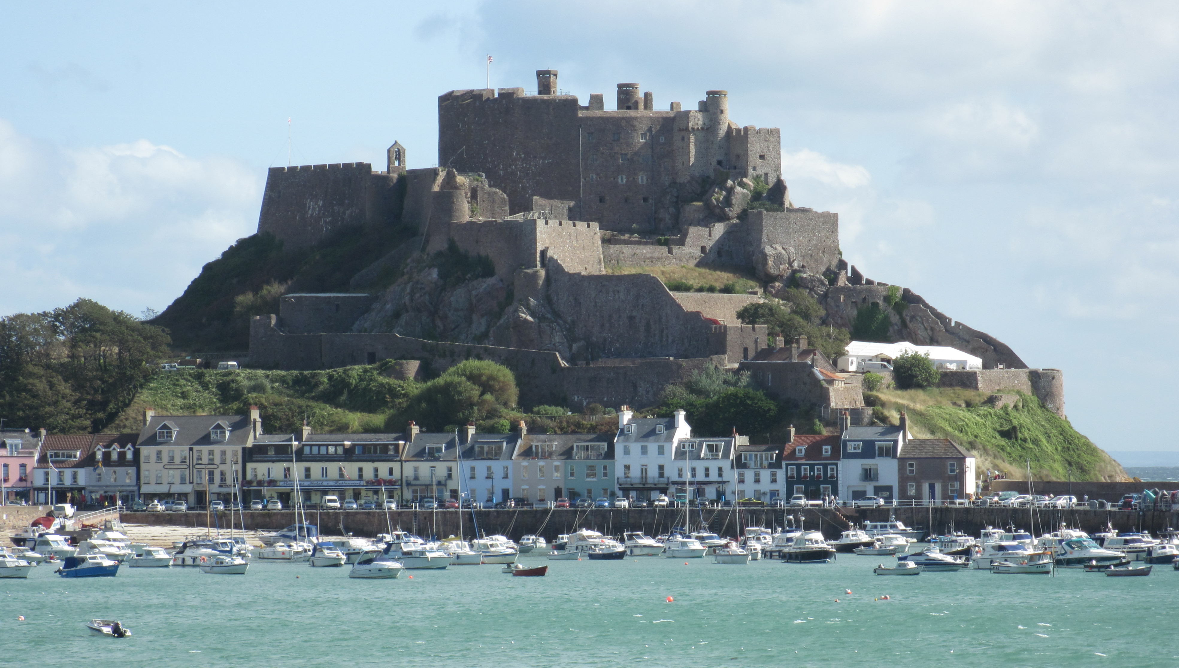 12 September 2009: Saint Clement, Grouville, Saint Martin, Jersey